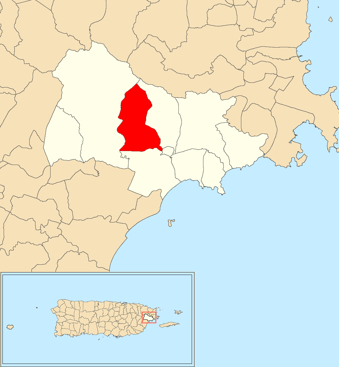 Maizales, Naguabo, Puerto Rico locator map